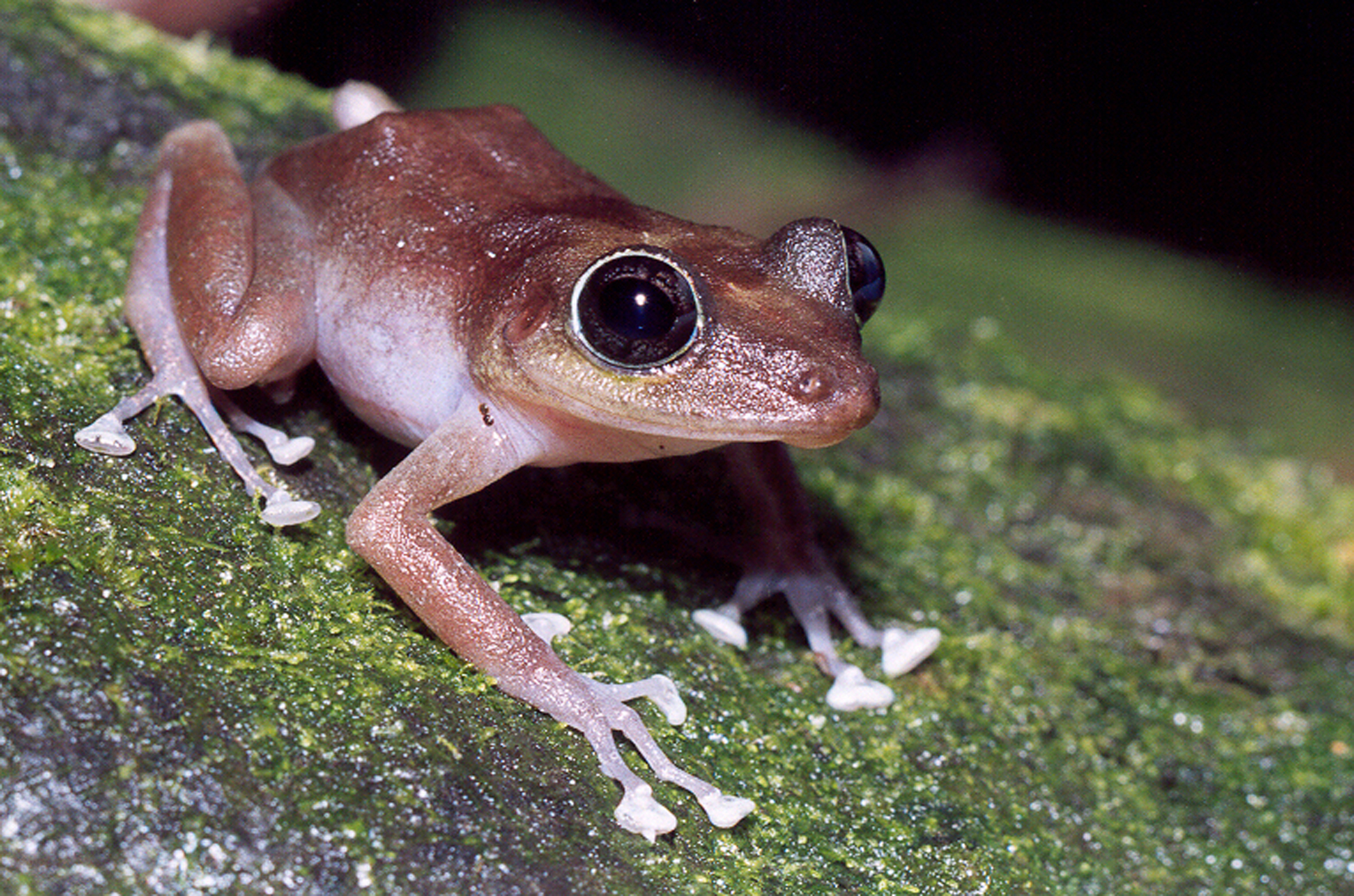 Female Guajon rain frog, Eleutherodactylus cooki, on a tree branch. This species of Eleutherodactylus is endemic to Puerto Rico.